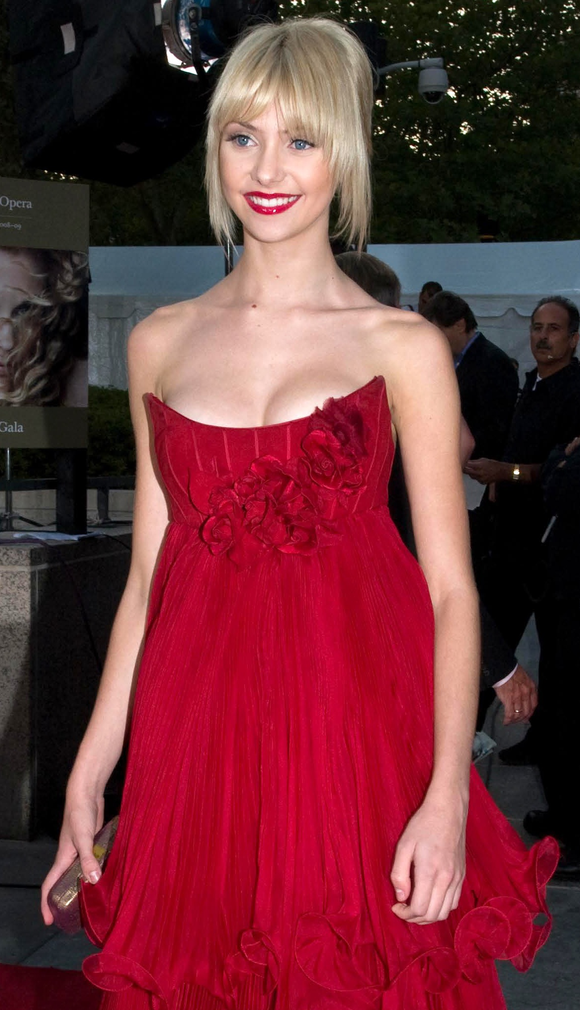 Taylor Momsen at the Metropolitan Opera opening in 2008. Rubenstein, photographer Martyna Borkowski